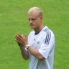 Olivier Deschacht (RSC Anderlecht)